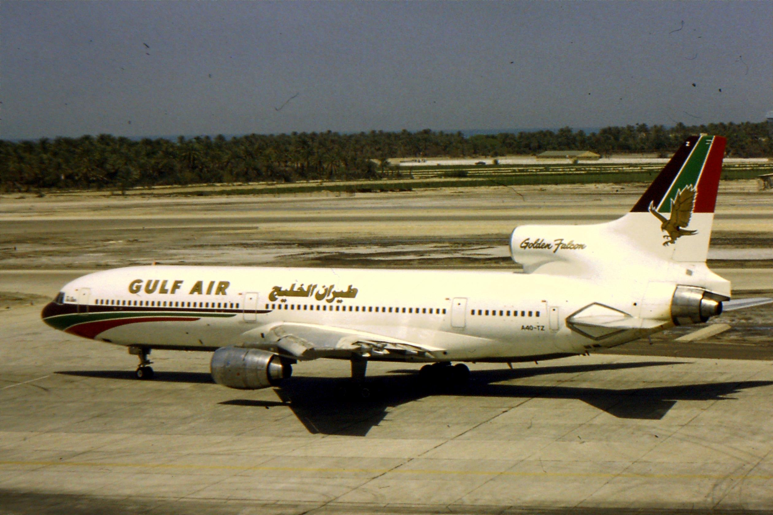 Regular 10.00 departure to LHR from BAH. The plane used to work up from Muscat, Dubai or Doha as part of the routing. Very different to today's services. I managed to fly on their VC-10s and a couple of the TriStars, including one of a pair leased from TWA just before they started evaluating the 767 as its replacement.